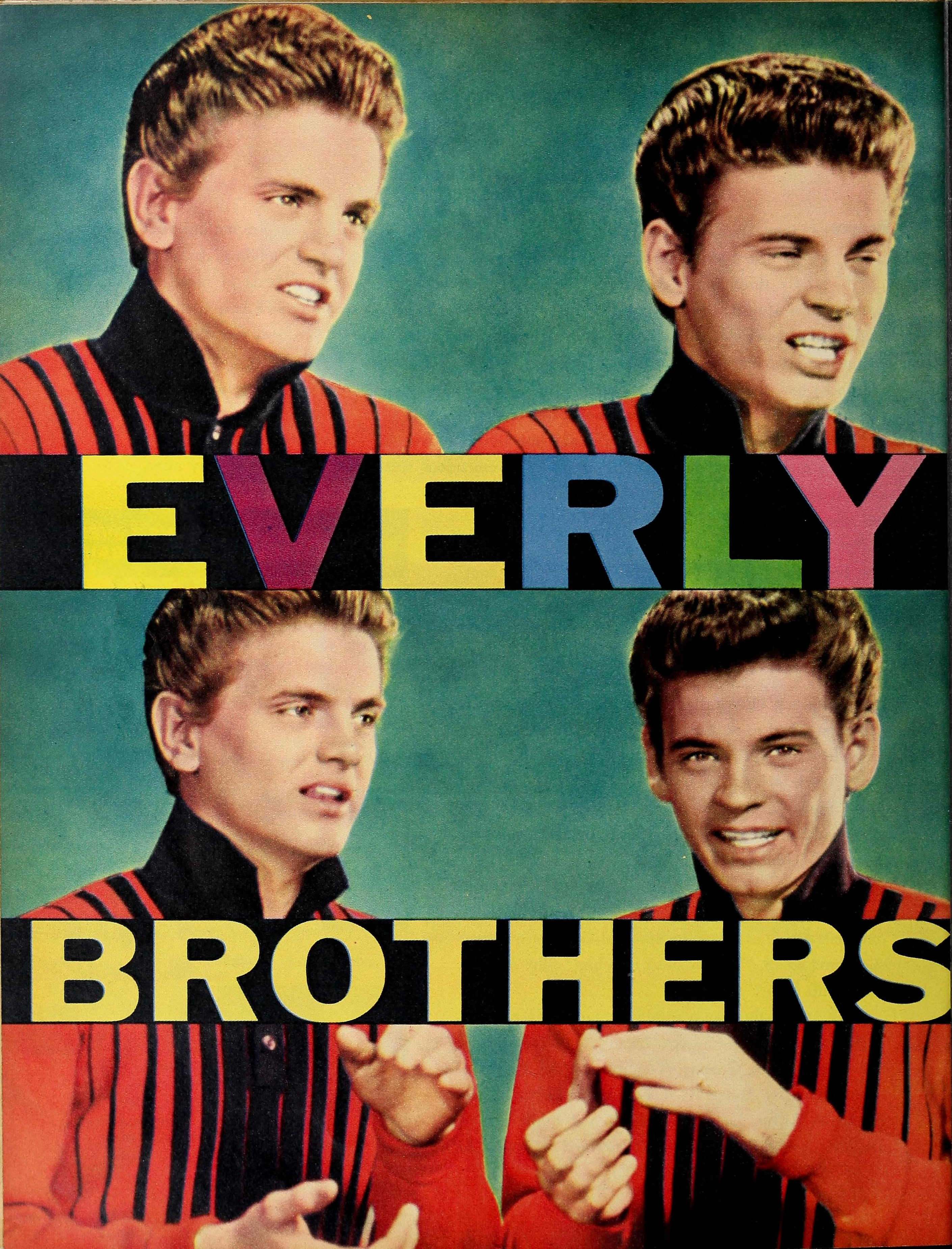 The Everly Brothers in Modern Screen, Oct. 1958